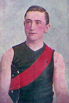 Cigarette card of Mark Shea from the 1905 Wills Past and Present Champions series.